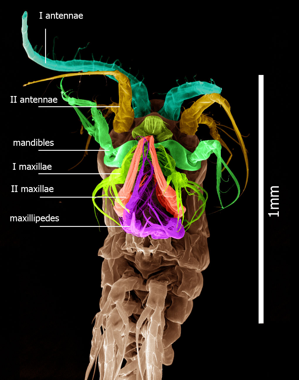 Photo of copepoda Epischura baikalensis (erroneously baicalensis) from a scanning electron microscope (SEM). Colors denote different groups of feeding appendages.